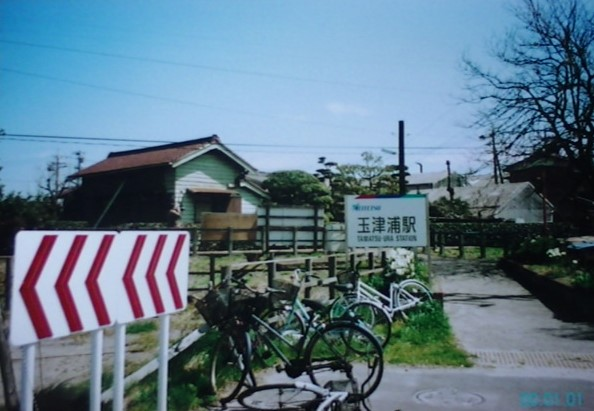 Meitetsu Mikawa line Tamatsu-ura Station entrance (2004 March)